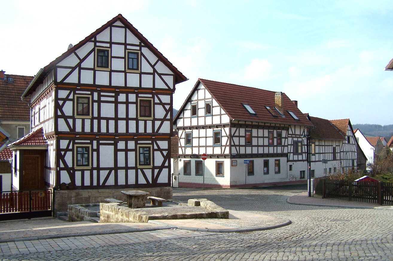 At the market place in the village Ifta.